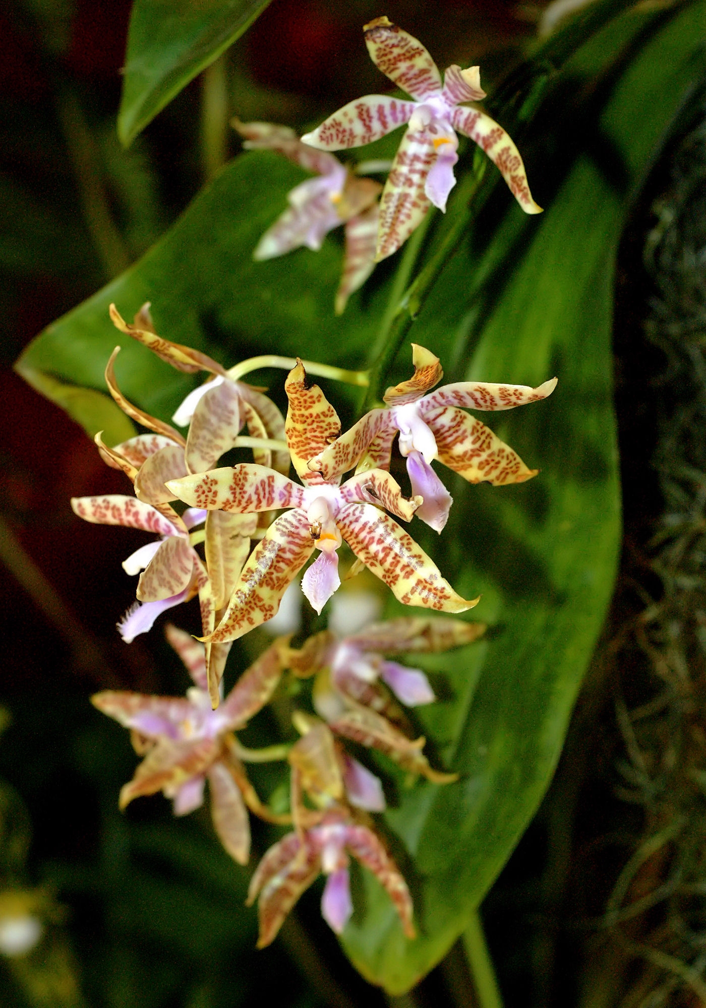 Phalaenopsis hieroglyphica